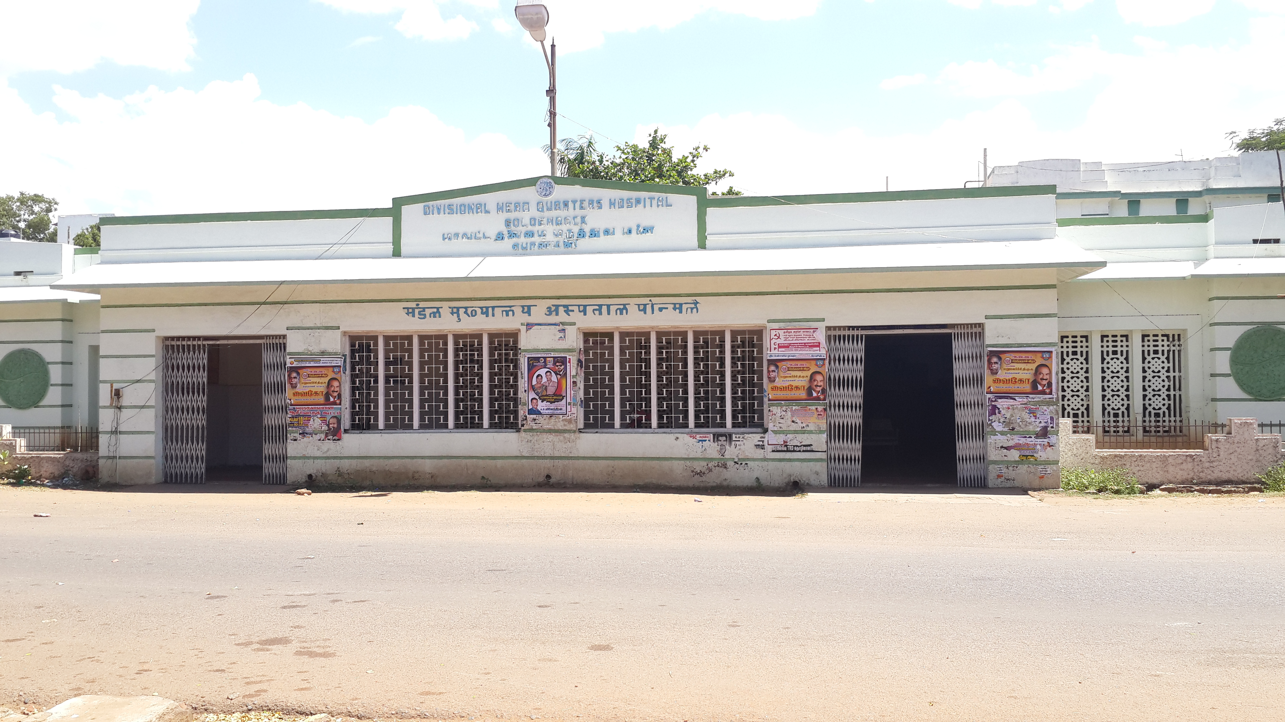 Main entrance at the front of Divisional Railway Hospital, Golden Rock